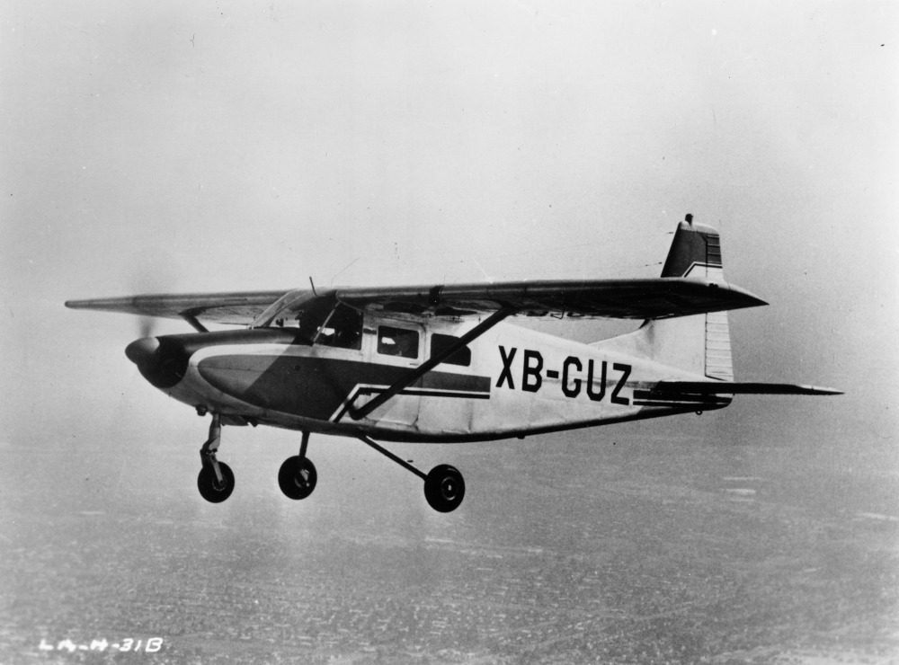 PictionID:42765796 - Title:Lockheed LASA-60 XB-GUZ c61 [mfr via RJF] - Catalog:17_000170 - Filename:17_000170.tif - - --------Image from the René Francillon Photo Archive. Having had his interest in aviation sparked by being at the receiving end of B-24s bombing occupied France when he was 7-yr old, René Francillon turned aviation into both his vocation and avocation. Most of his professional career was in the United States, working for major aircraft manufacturers and airport planning/design companies. All along, he kept developing a second career as an aviation historian, an activity that led him to author more than 50 books and 400 articles published in the United States, the United Kingdom, France, and elsewhere. Far from “hanging on his spurs,” he plans to remain active as an author well into his eighties.-------PLEASE TAG this image with any information you know about it, so that we can permanently store this data with the original image file in our Digital Asset Management System.--------------SOURCE INSTITUTION: San Diego Air and Space Museum Archive